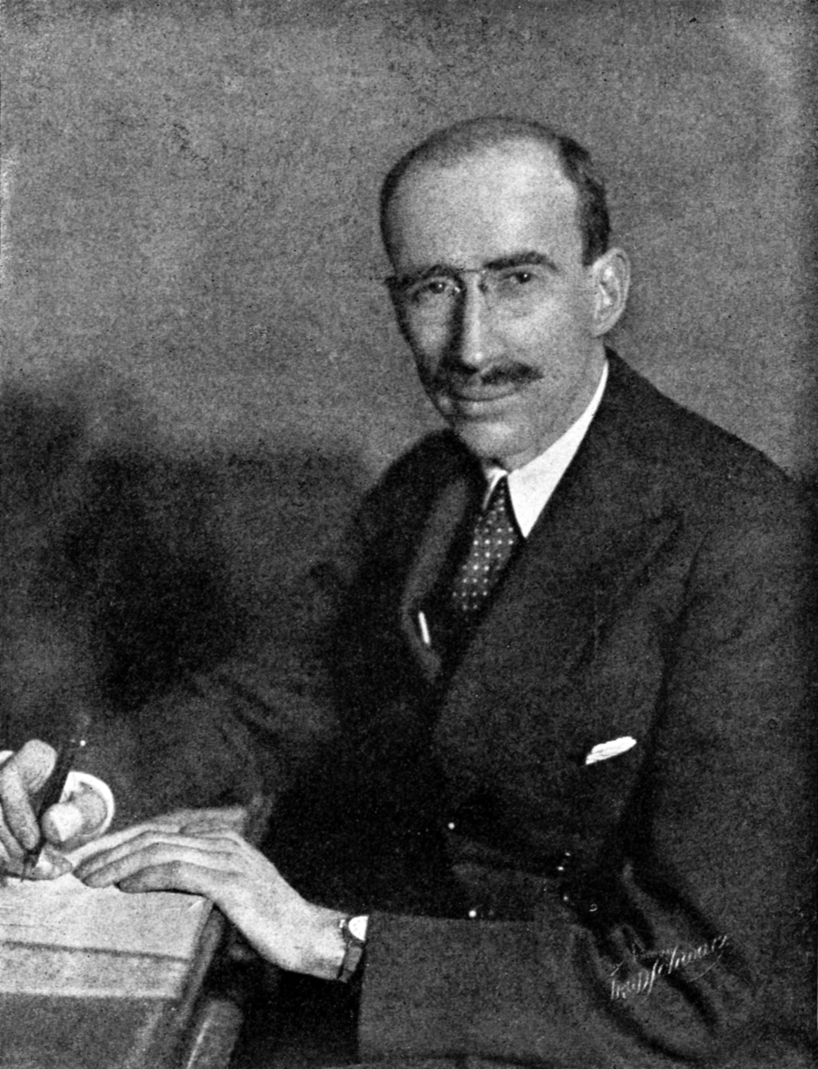 Photograph of William Harris, Jr.